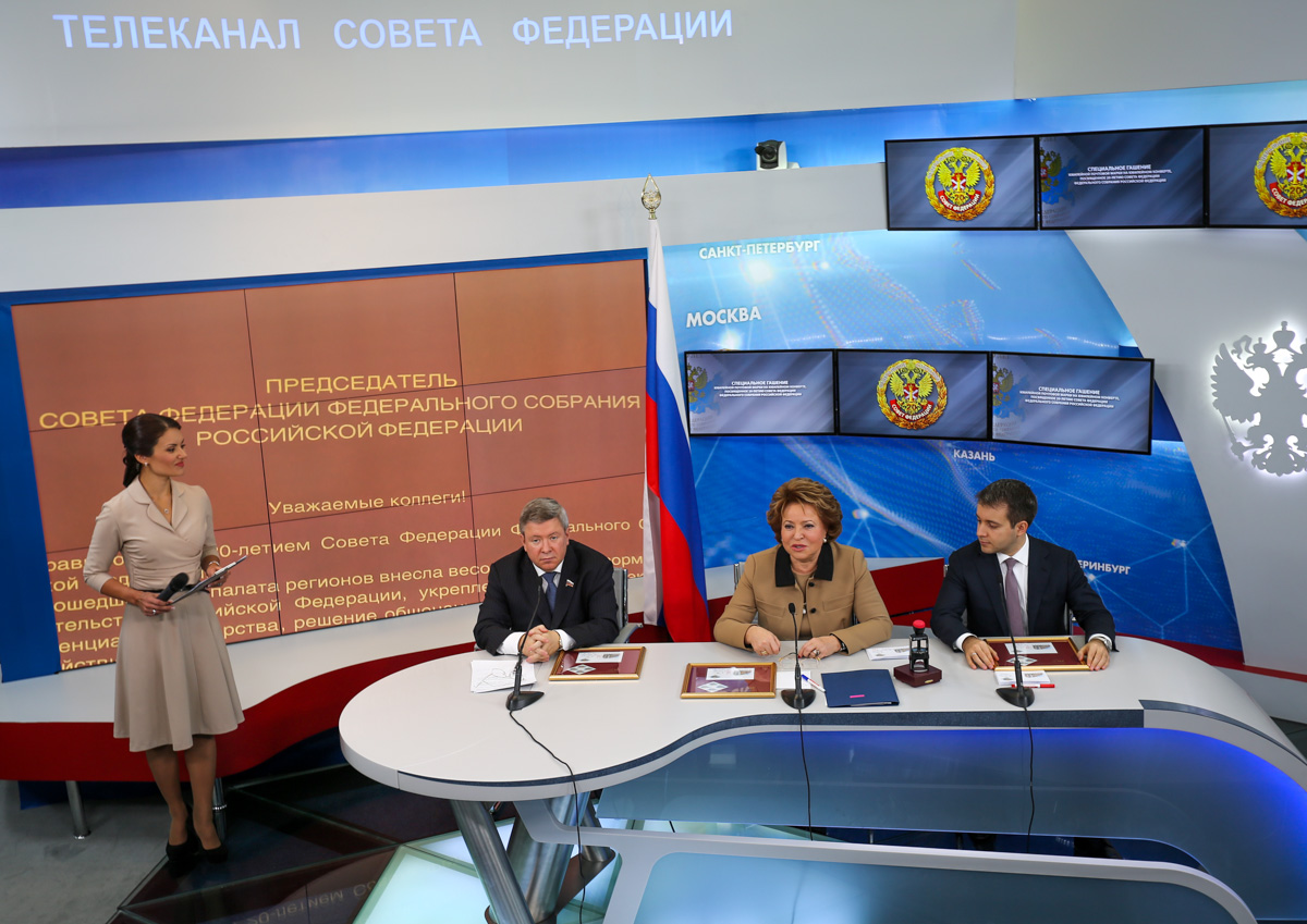 17 December 2013, Moscow. The cancellation ceremony of the postage stamp marking the 20th anniversary of the Federation Council of Russia. From left to right: Vmeste-RF's anchor Svetlana Mitina, First Deputy Chairman of Russia's Federation Council Aleksandr Torshin, Chairman of Russia's Federation Council Valentina Matviyenko and Russian Minister of Telecom and Mass Communications Nikolay Nikiforov.